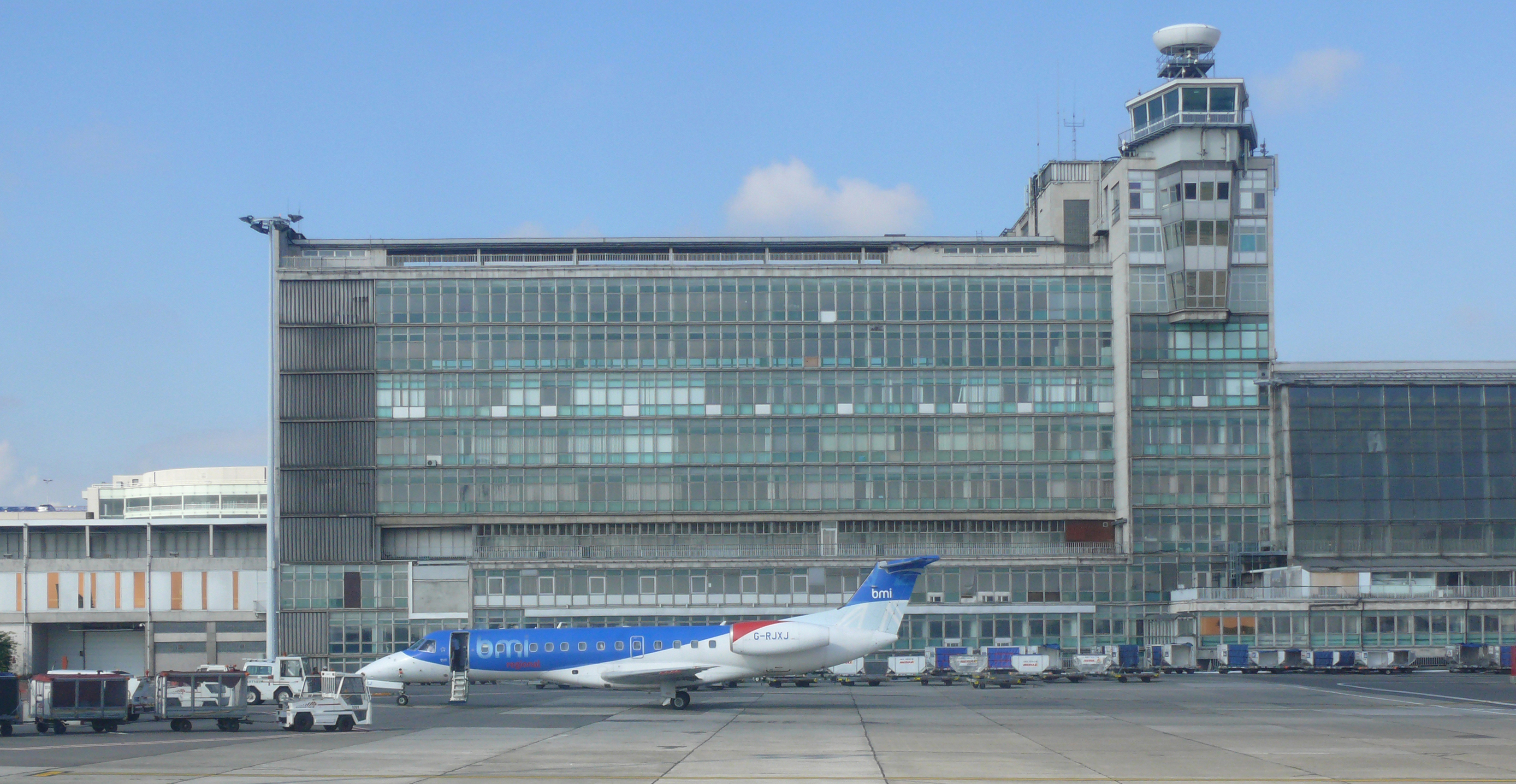 BMI Regional G-RJXJ Embraer EMB145EP (ERJ145) at Zaventem Brussels Airport in front of the old terminal building.